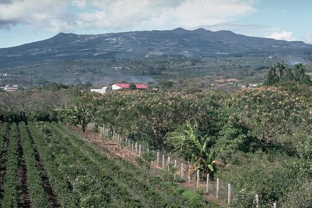 Volcán Barva (Barba), seen here from the Central Valley of Costa Rica, is a complex volcano with a broad summit containing three principal peaks and a dozen eruptive vents. Four pyroclastic cones are constructed within the central and NW parts of a 2 x 3 km caldera. The SW peak is capped by another 4 cones, one of which contains a crater lake. Satellitic cones are found on the northern and southern flanks. A large plinian eruption occurred at Barva during the early Holocene. There have been no confirmed historical eruptions.